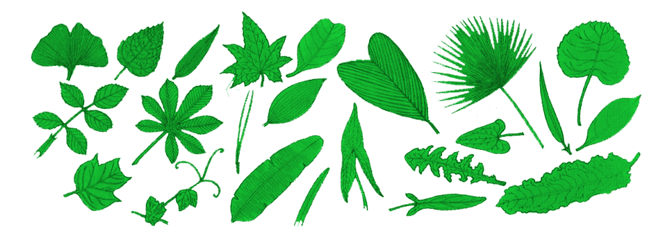 All varieties of leaves